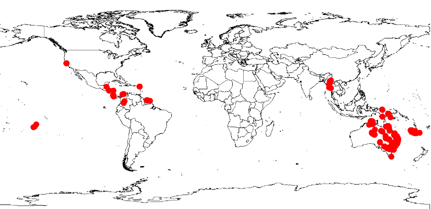 Collections data for Hugh Shaw MacKee via downloads from AVH using & These dois are the result of text searches for "McKee" and "MacKee" in the Australasian Virtual Herbarium. The data were then processed using a SAS program which exluded all collectors (Recordedby Field in the Darwin Core) who were not this MacKee.